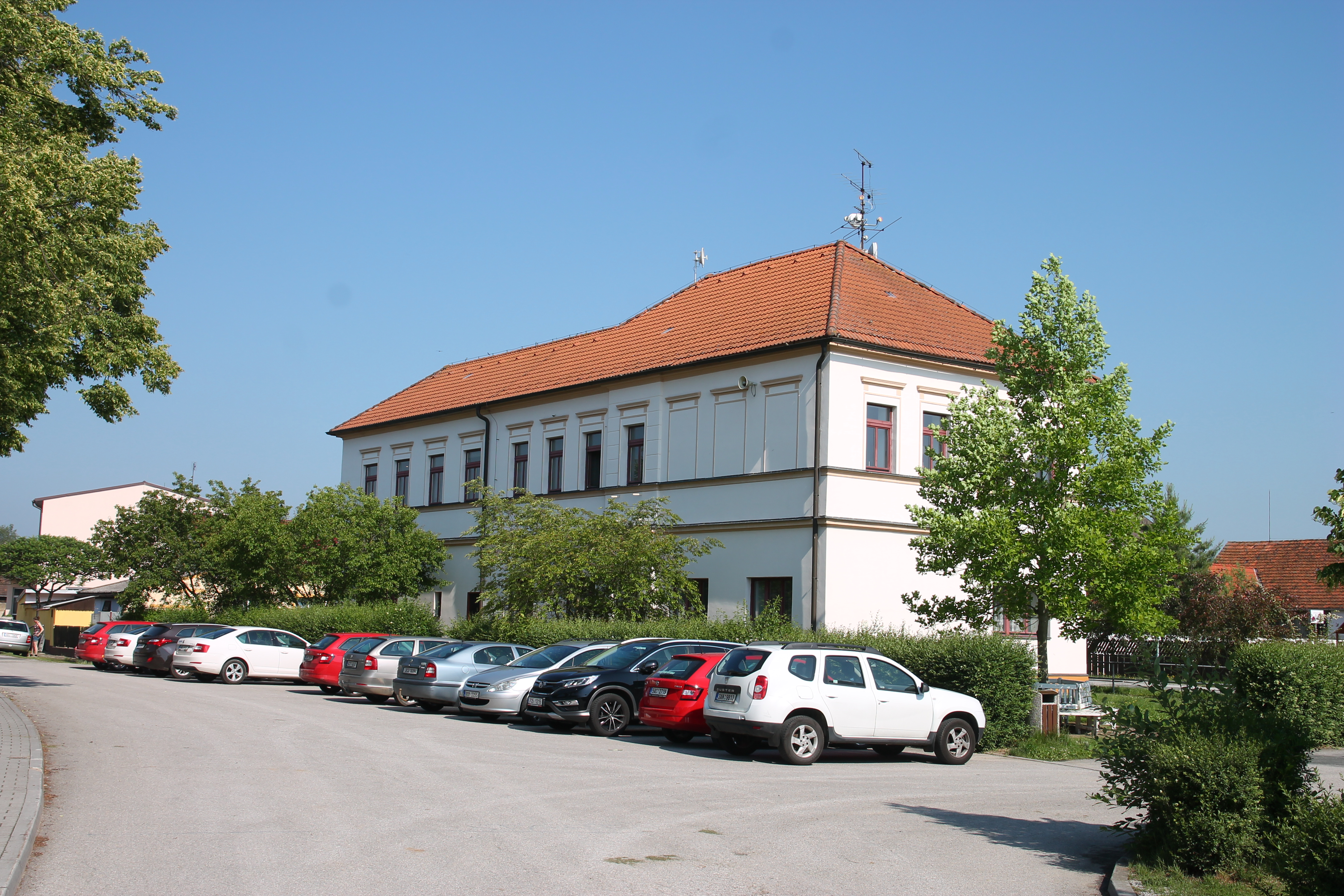 Municipality office in Neplachov